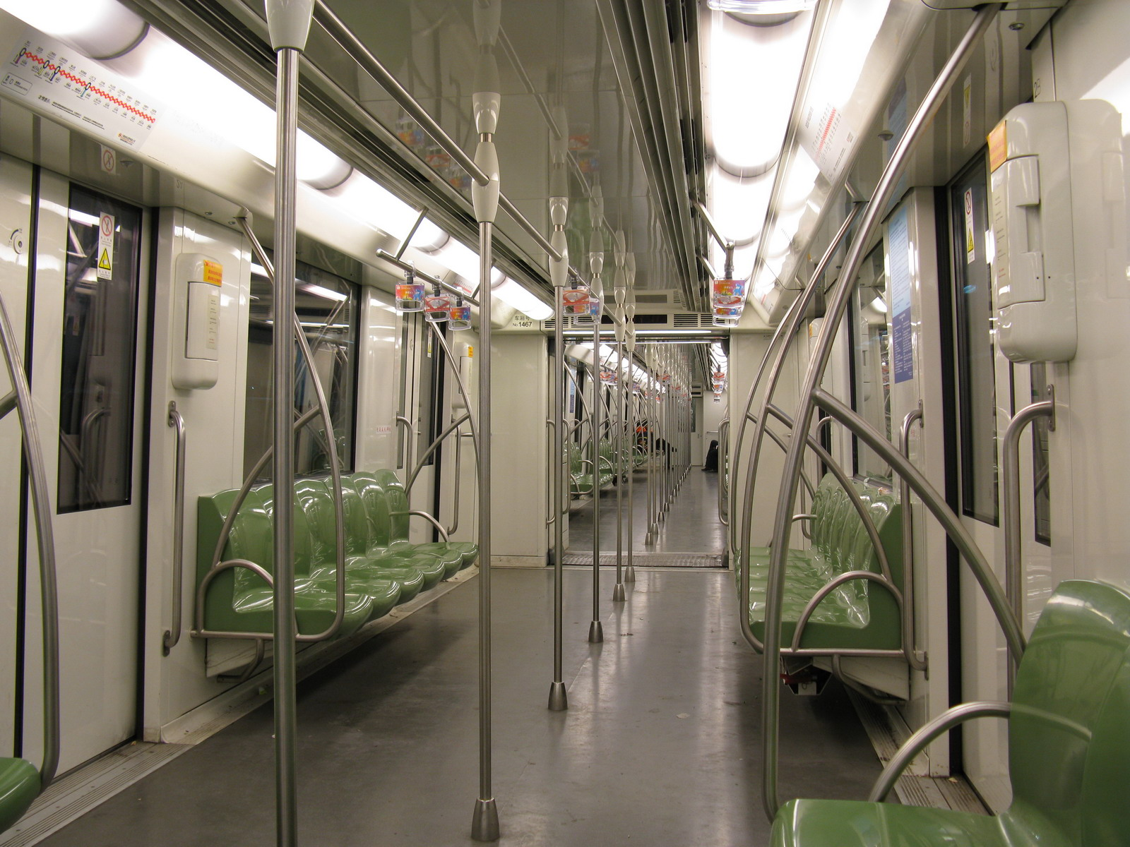 上海軌道交通1號線列車車廂 Interior of Shmetro Line 1 Train